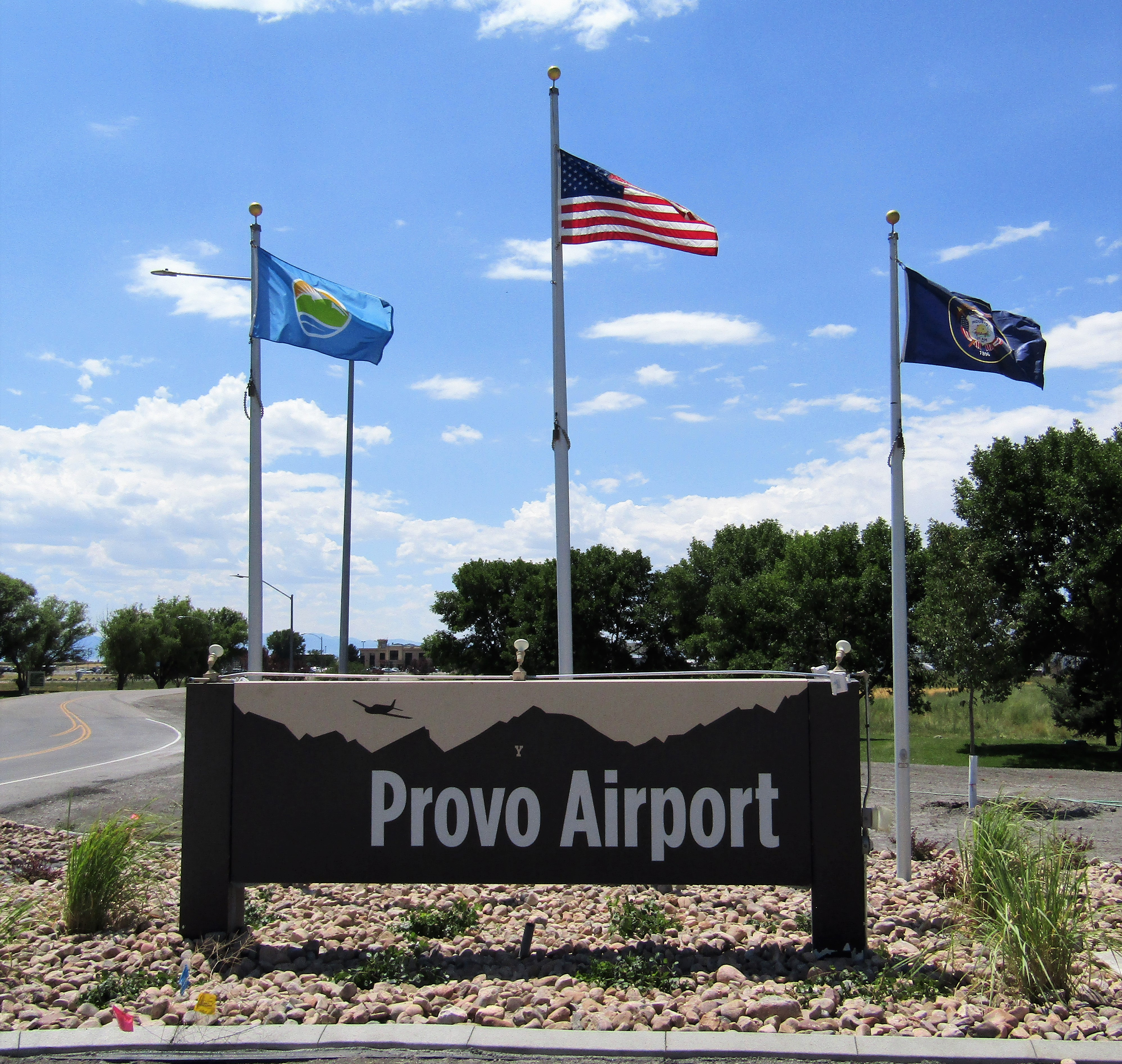 Entrance to the Provo Municipal Airport.